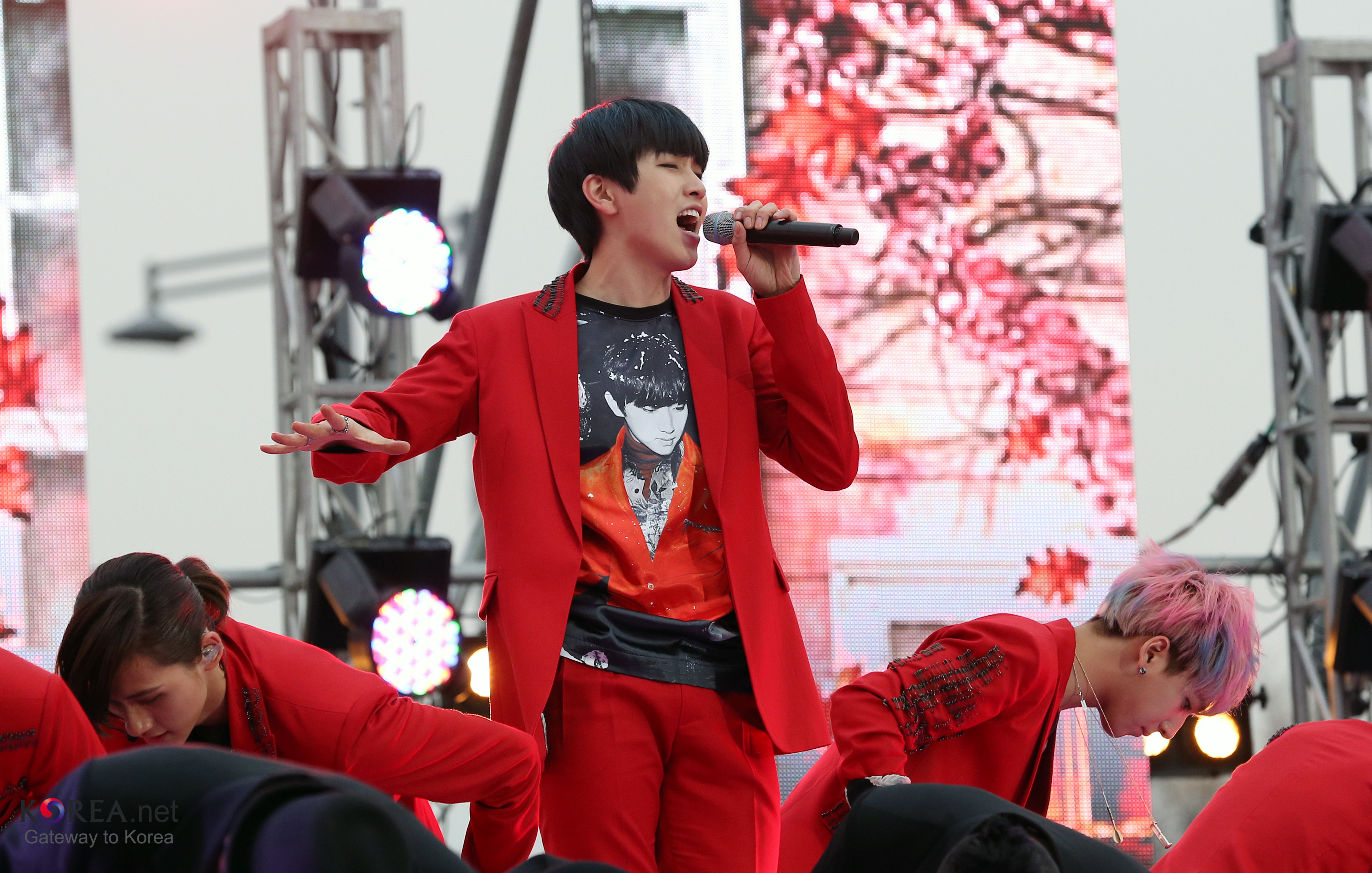 SBS Inkigayo. B1A4 '걸어본다'. Gwanghwamun, Seoul, Korea